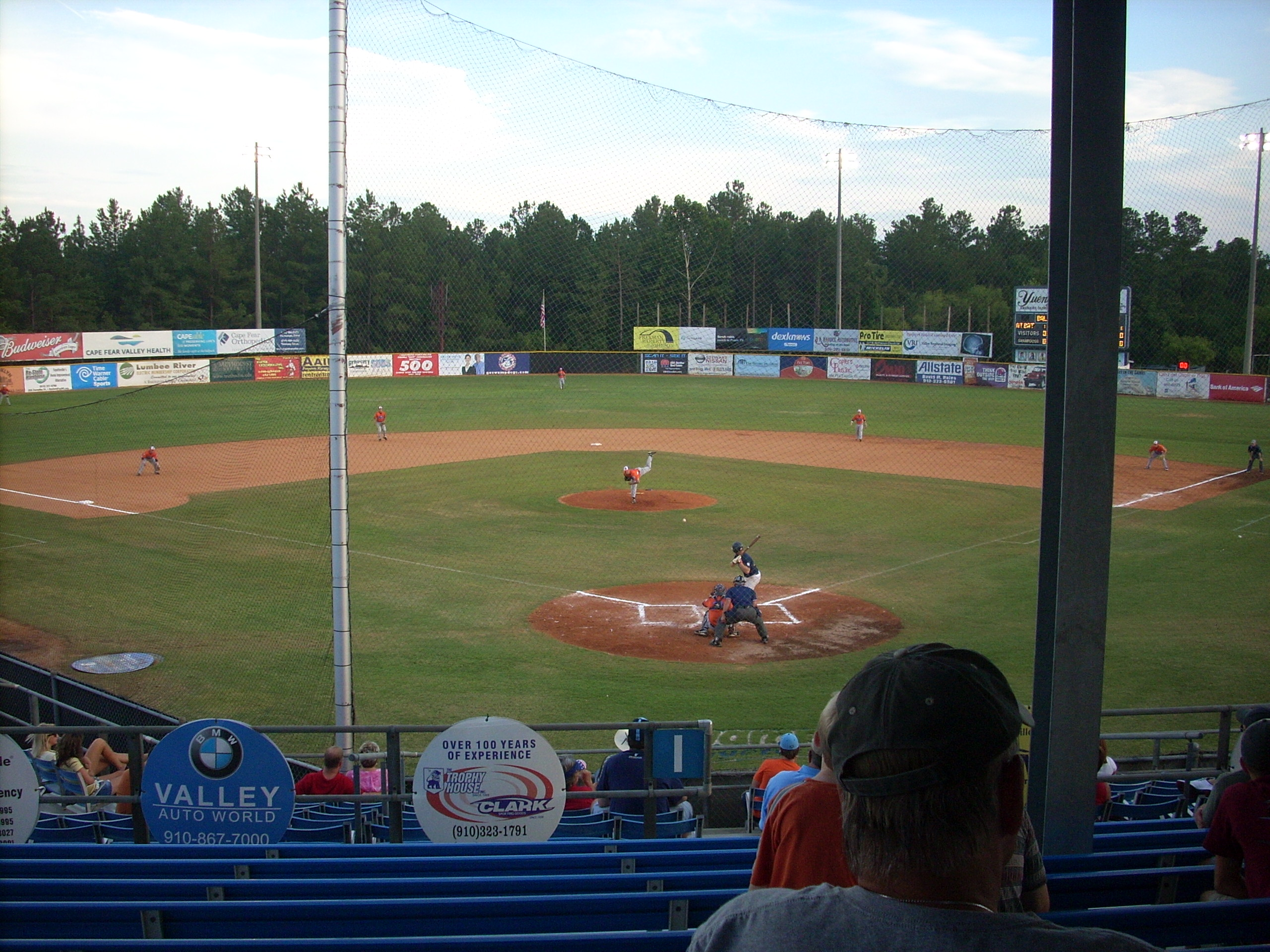 Fayetteville Swampdogs (blue) vs. Peninsula Pilots (orange) of the Coastal Plains League. This is collegiate summer baseball. College players playing with a wood bat. All amateurs no pros. J. P. Riddle Stadium in Fayetteville, NC.